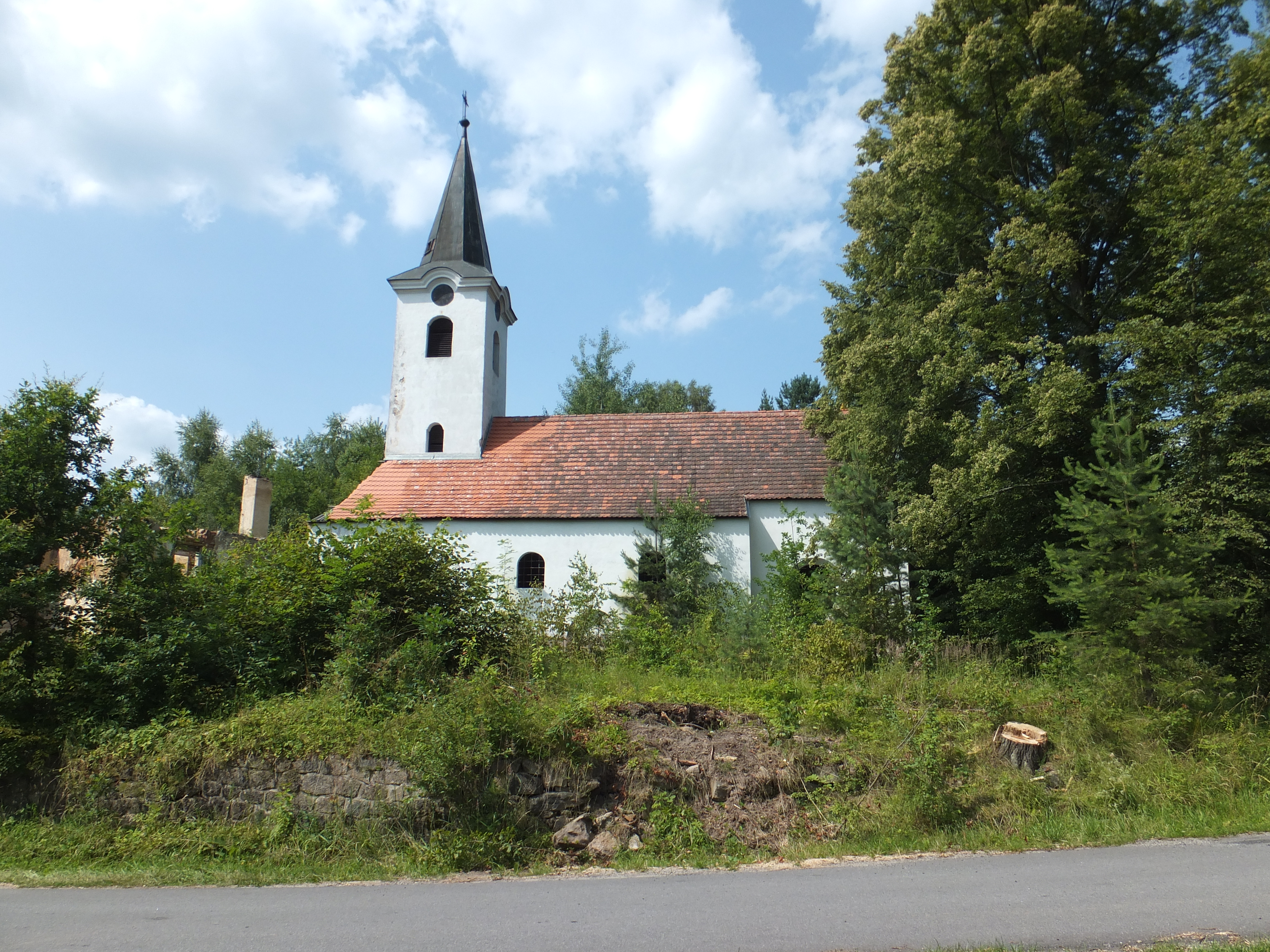 Krabonoš (Germ. Zuggers) - the church of Saint John The Baptist